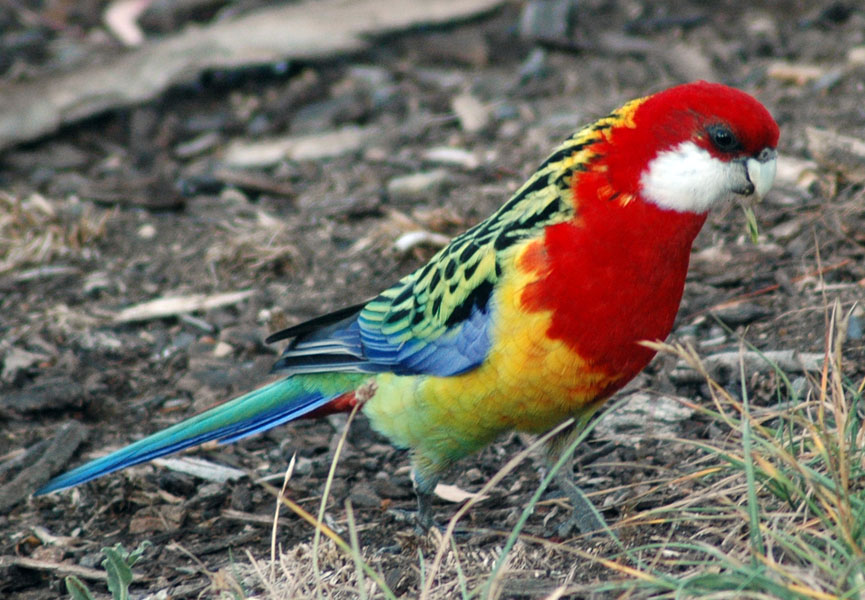 Eastern Rosella Platycercus eximius at Hobart Domain